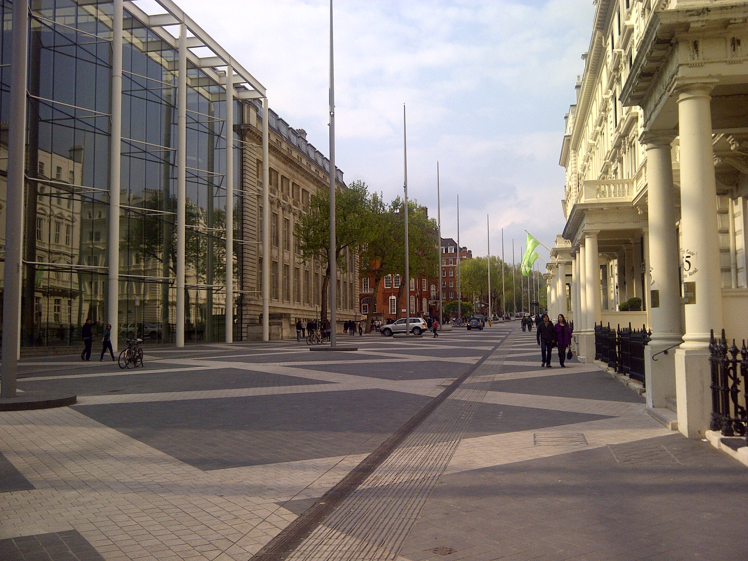 New look of the Exhibition Road in South Kensington, London